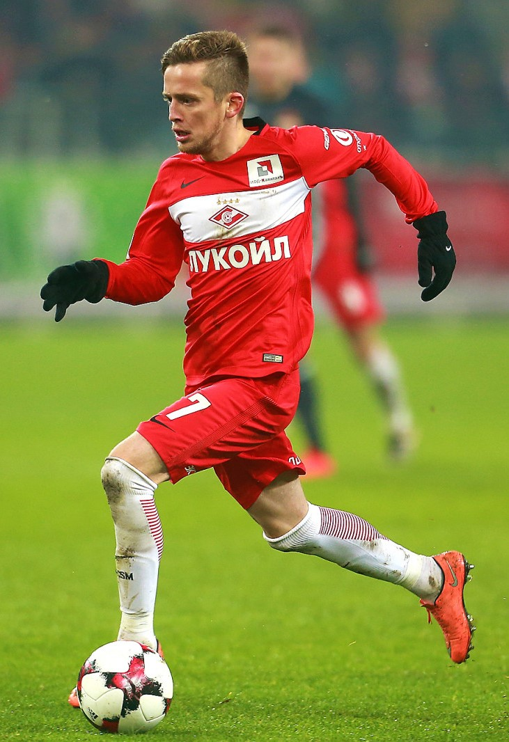 Zhano Ananidze